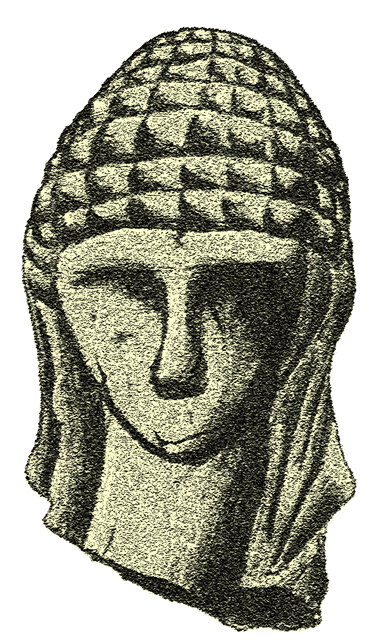 Venus of Brassempouy (Landes, France)